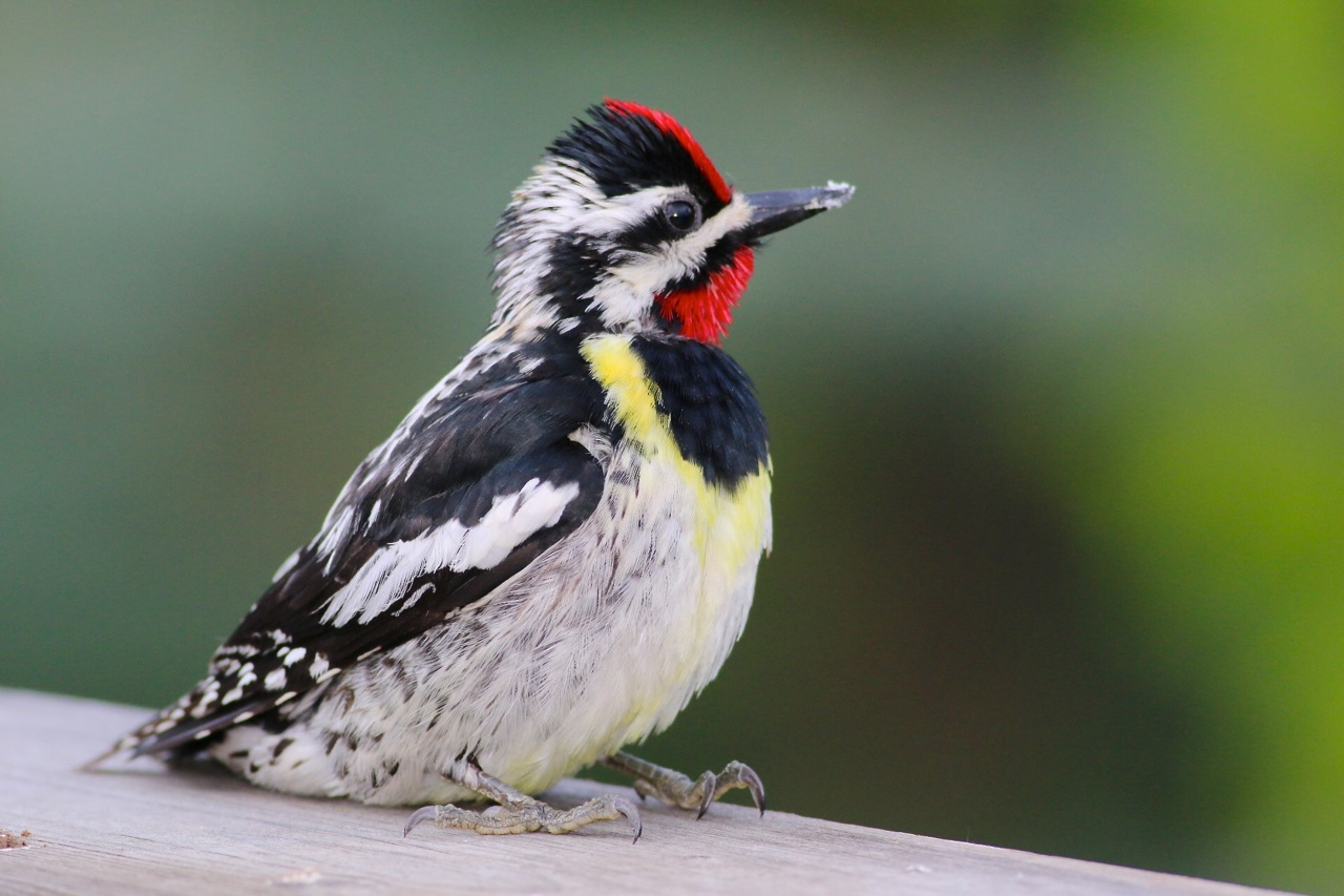 Sandy Lake, Two Hills County, Alberta